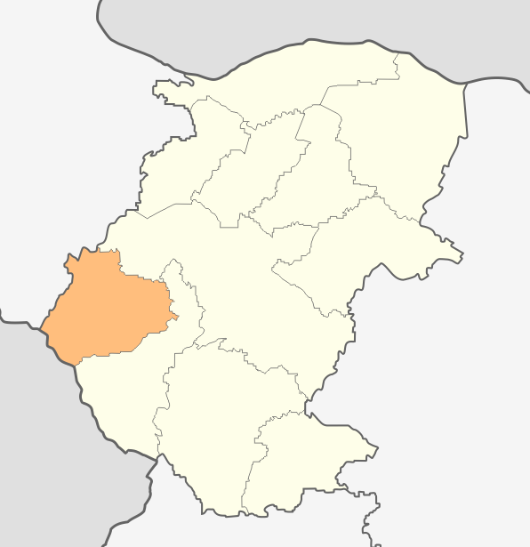 Map of Chiprovtsi municipality, Montana Province